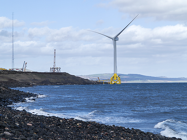 Fife coast at Buckhaven. Methil Offshore Wind Farm